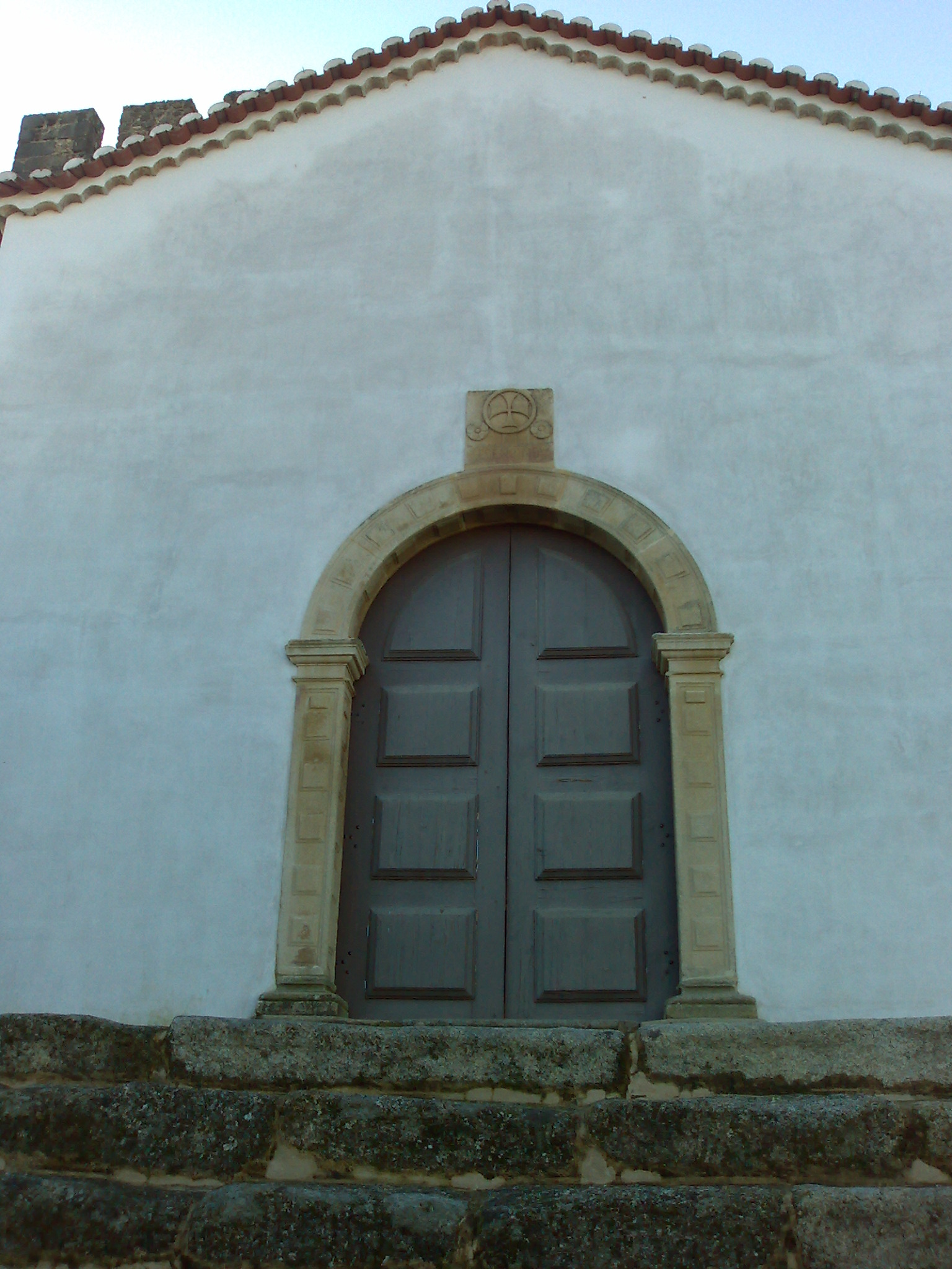 São João Baptista chapel at the Amieira castle, Amieira do Tejo, Nisa, Portugal.